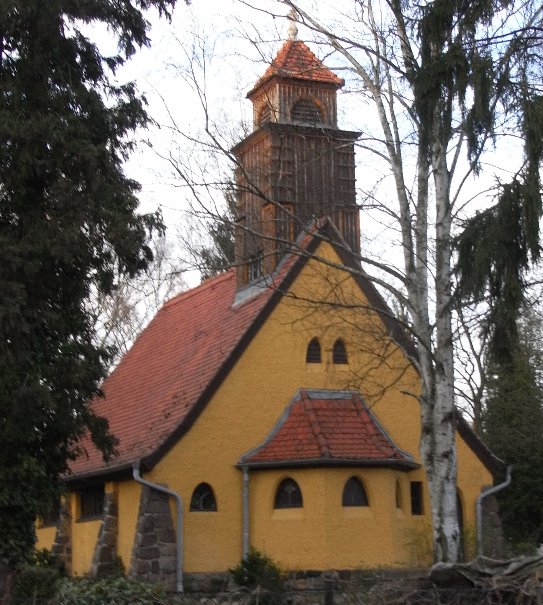 This is a photograph of an architectural monument.It is on the list of cultural monuments of Glienicke/Nordbahn